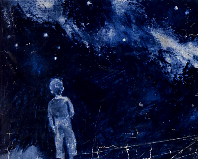 korica na kosmos nulev broj